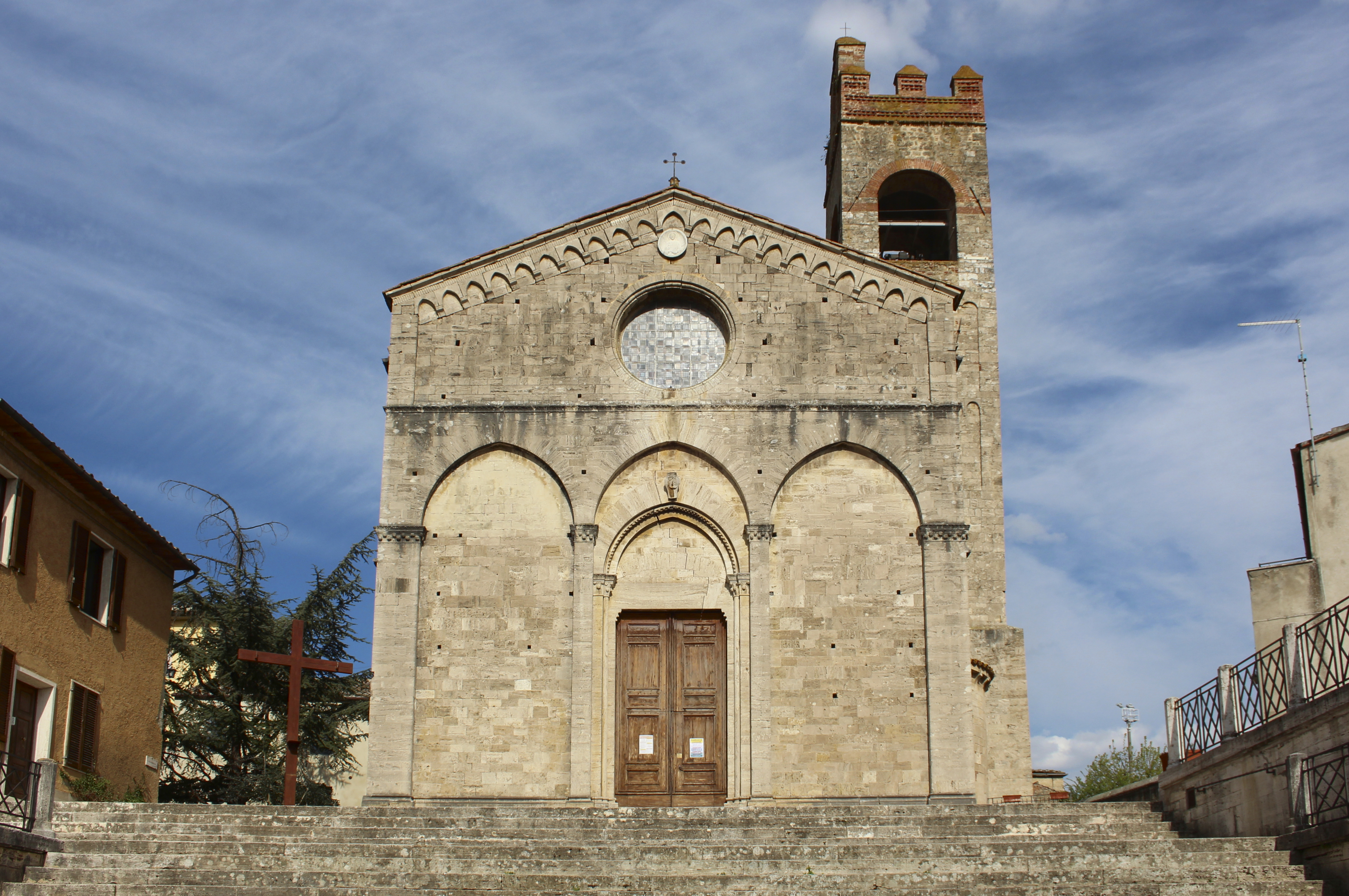 Facade of Sant'Agata, Asciano, Province of Siena, Tuscany, Italy